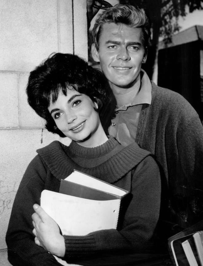 Publicity photo of Karyn Kupcinet and Skip Ward from the television show Mrs. G. Goes to College.